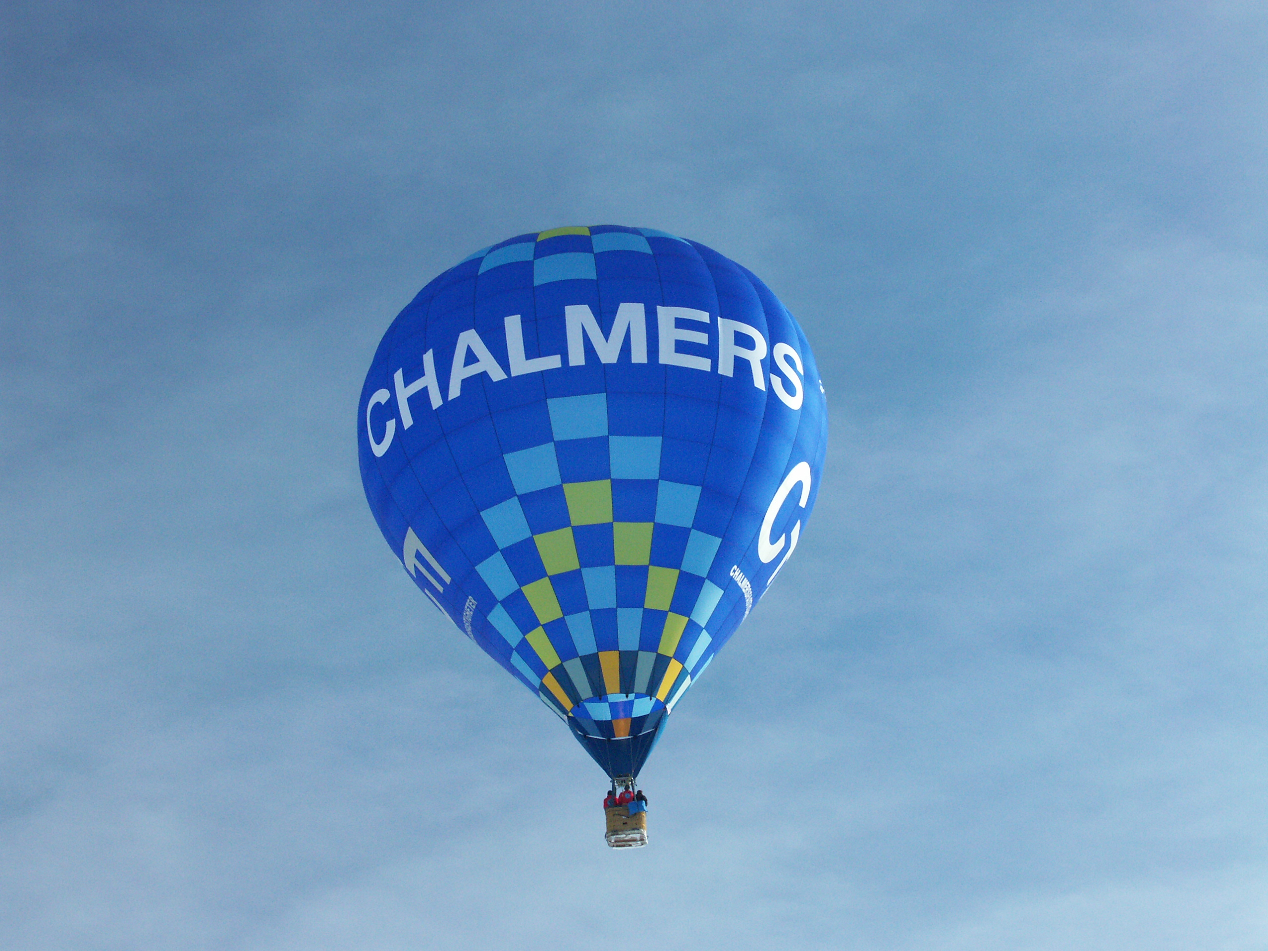 luftballon G-CDRF Cameron Z-90